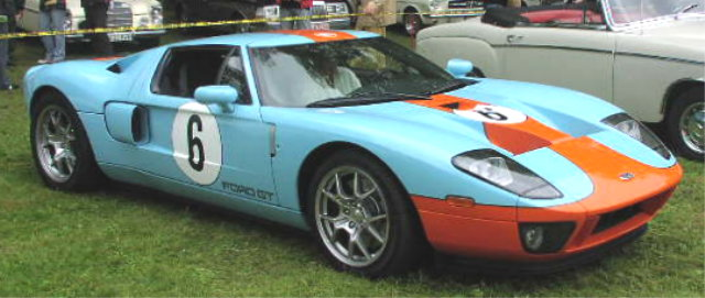 Ford GT (2006)